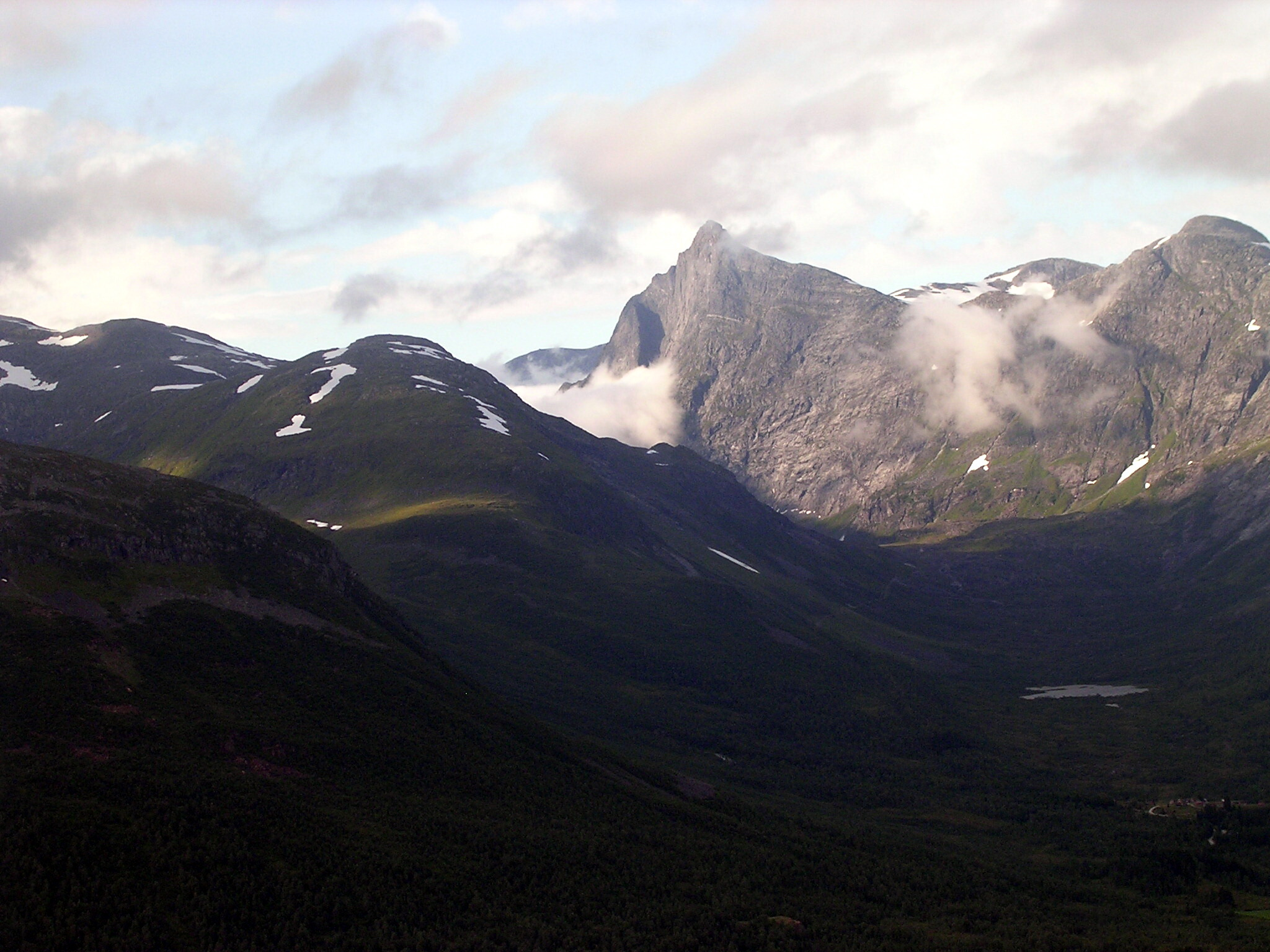 Hornindalsrokken, a mountain in the western part of Norway. Seen from Seljesethornet in south.